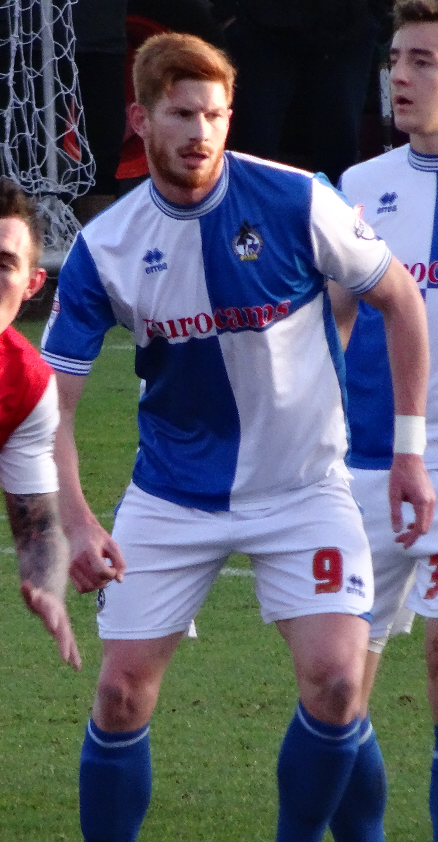 Matt Harrold playing for Bristol Rovers against York City at Bootham Crescent, York on 18 January 2014